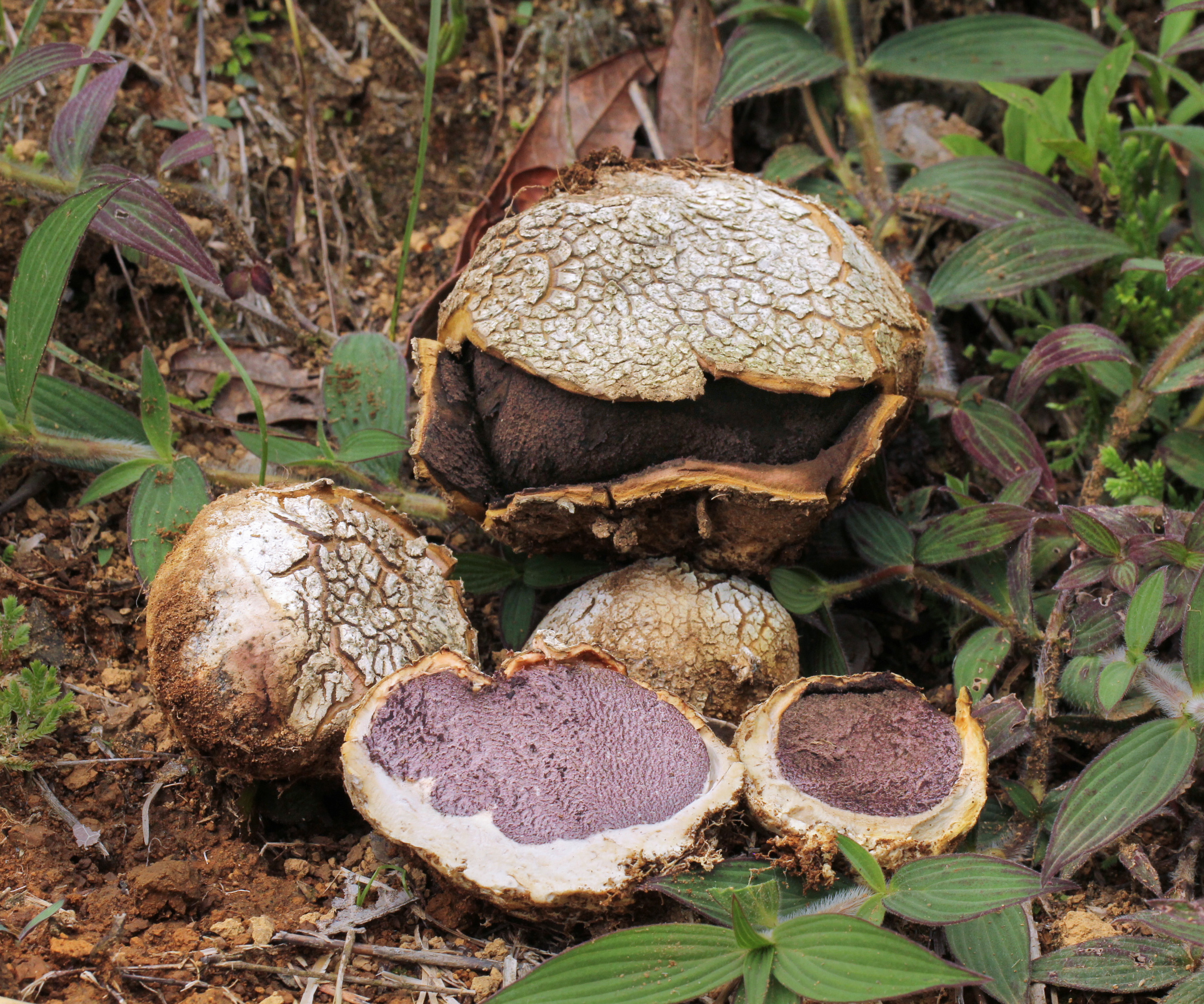 Scleroderma texense from La Alameda, Veracruz, Mexico.